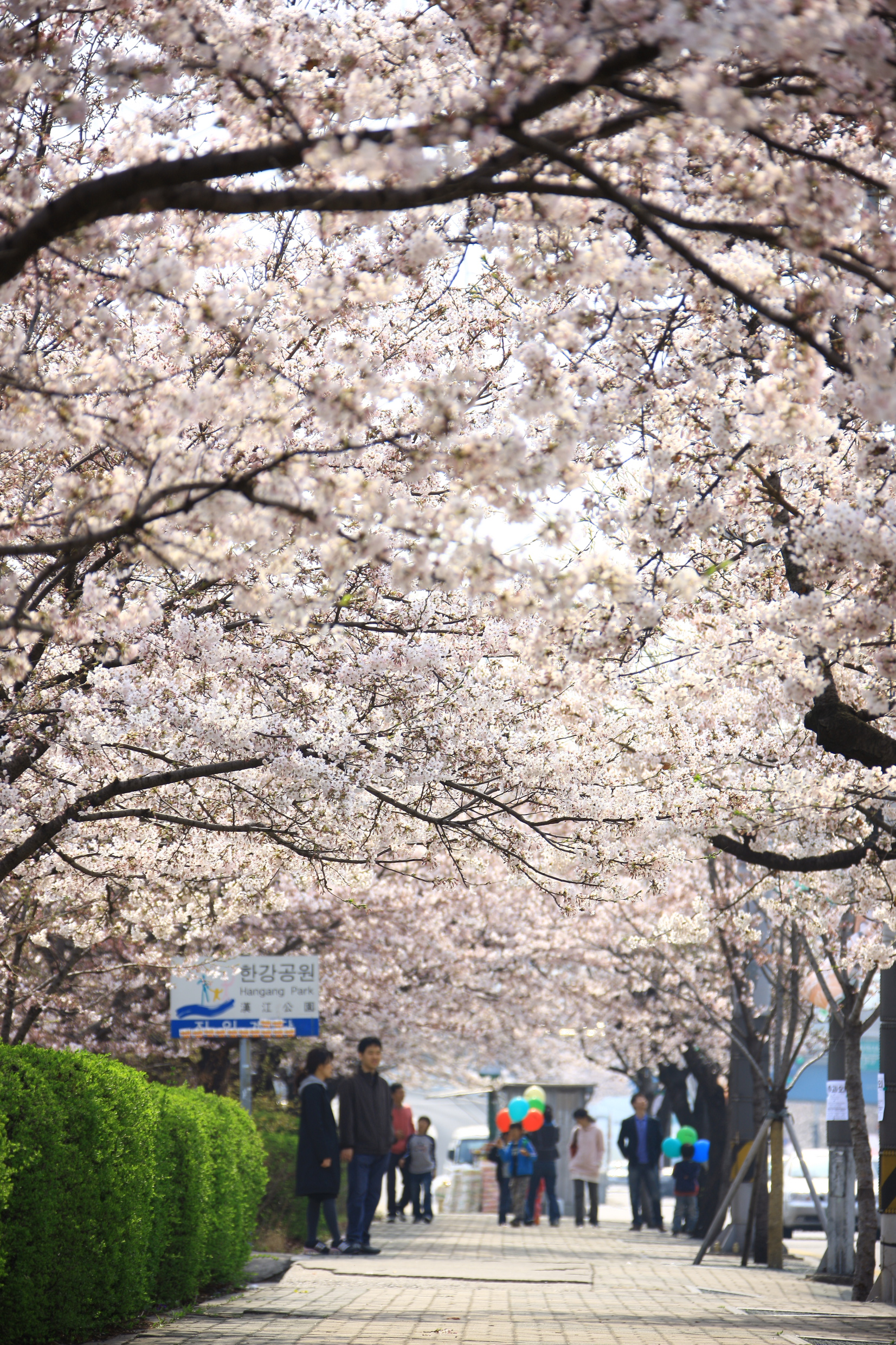 The Hangang Yeouido Spring Flower Festival will incorporate the Various, Integrative, Artistic Festival (VIAF), where artists from all over the world as well as our own backyard are invited to perform and exhibit their work, a live jazz performance on the newly built floating stage, and about 87,000 trees, including the crimson royal azalea blossom and golden forsythia. April 6 - 18, 2010 (13 days): General Event April 9 - 13, 2010 (5 days): Cultural Arts Performance Place: Yeouido Park, Yeouido, Seoul (Behind the National Assembly Building)